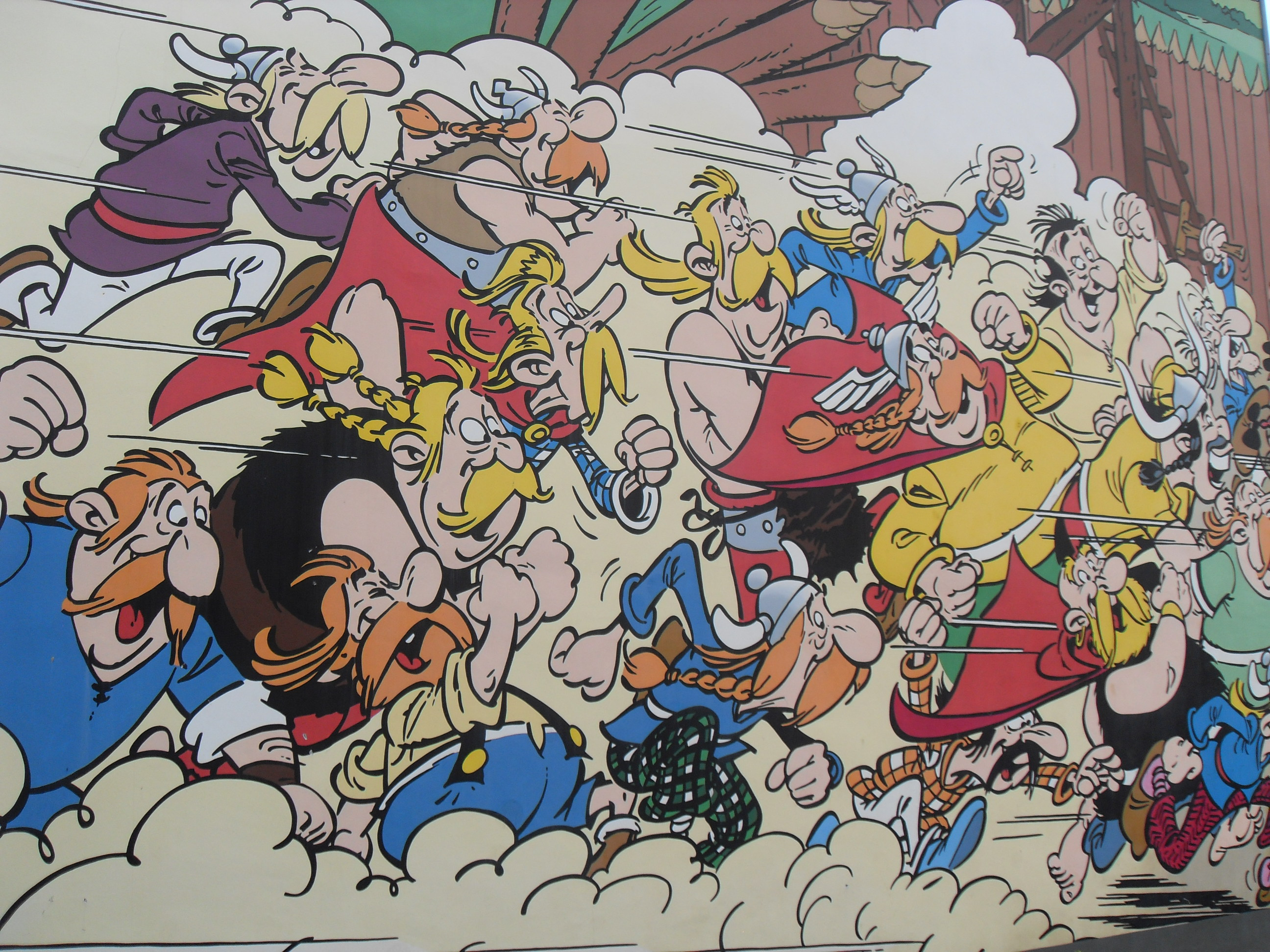 Asterix & Obelix mural painting. Location: street Buanderie 33/35, Brussels. Surface: ± 145 m². Realisation: Oreopoulos G., Vandegeerde D., Marcelle Bordier and Koen Weiss. Year: September 2005. Comment: Astérix or The Adventures of Asterix (French: Astérix or Astérix le Gaulois) is a series of French comic books written by René Goscinny and illustrated by Albert Uderzo (Uderzo also took over the job of writing the series after the death of Goscinny in 1977).